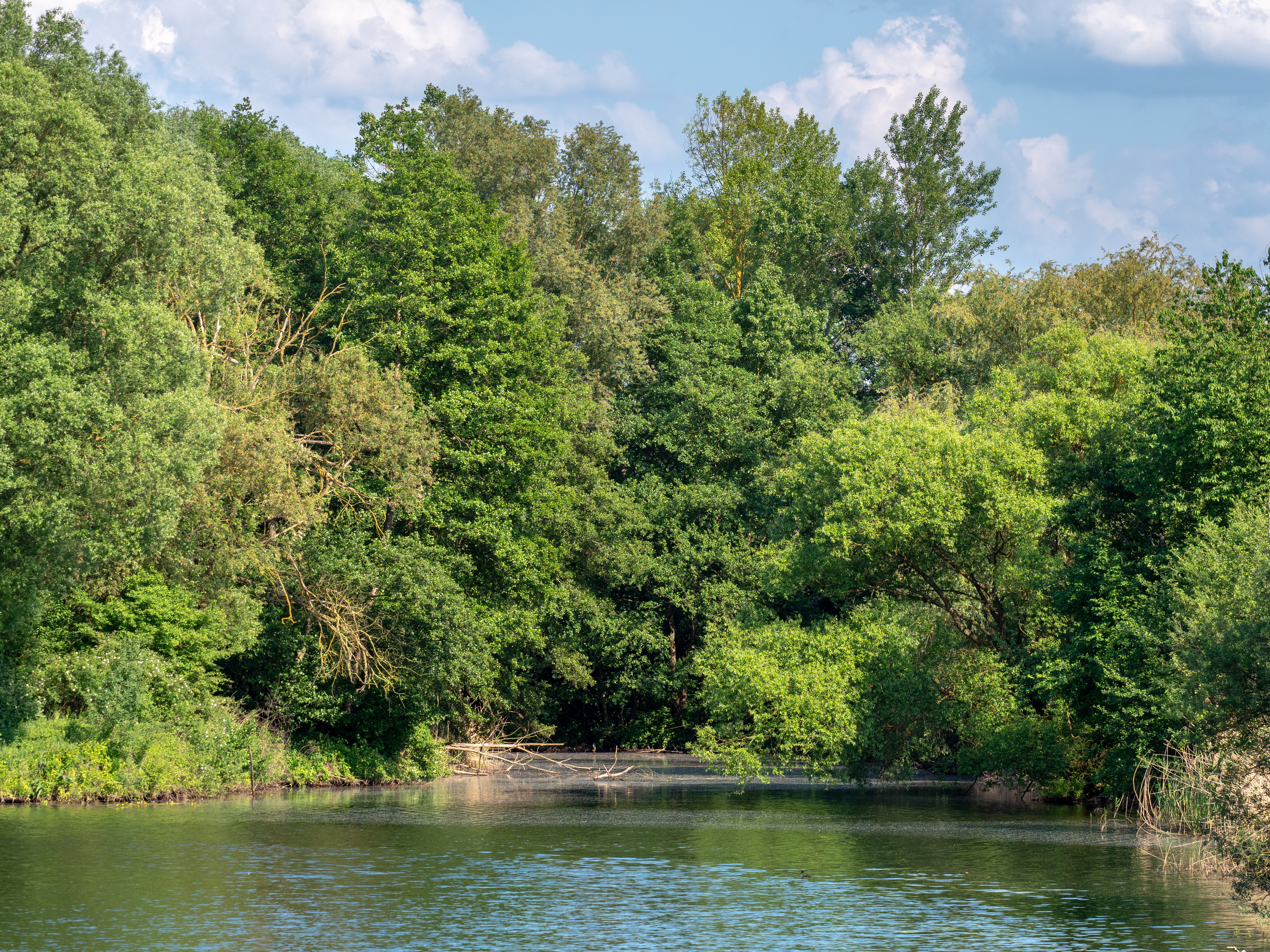 Excavator lake near Dörfleins